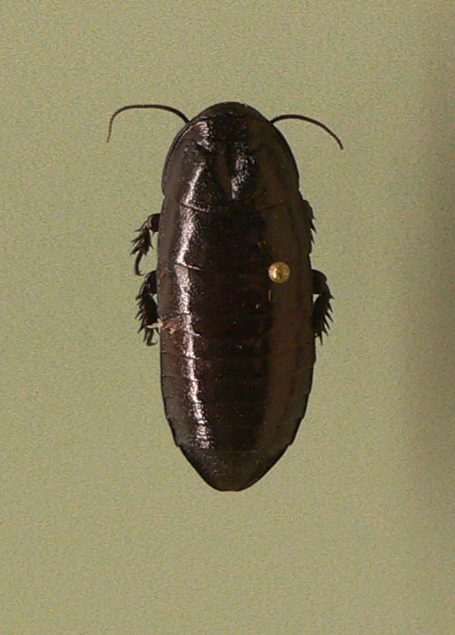 Cryptocercus garciai Pictures taken by myself at the Audubon Insectarium